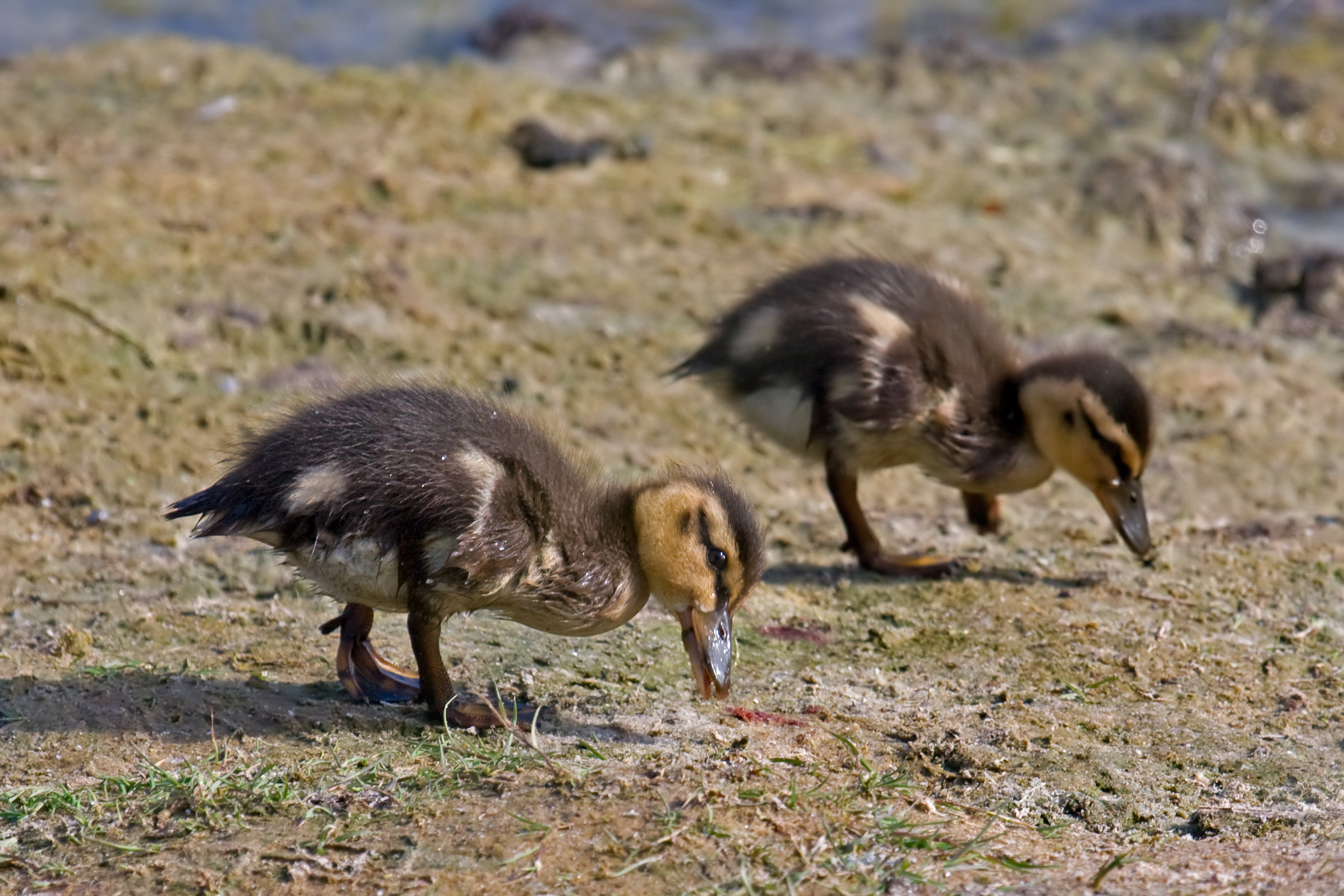 Mallard ducklings